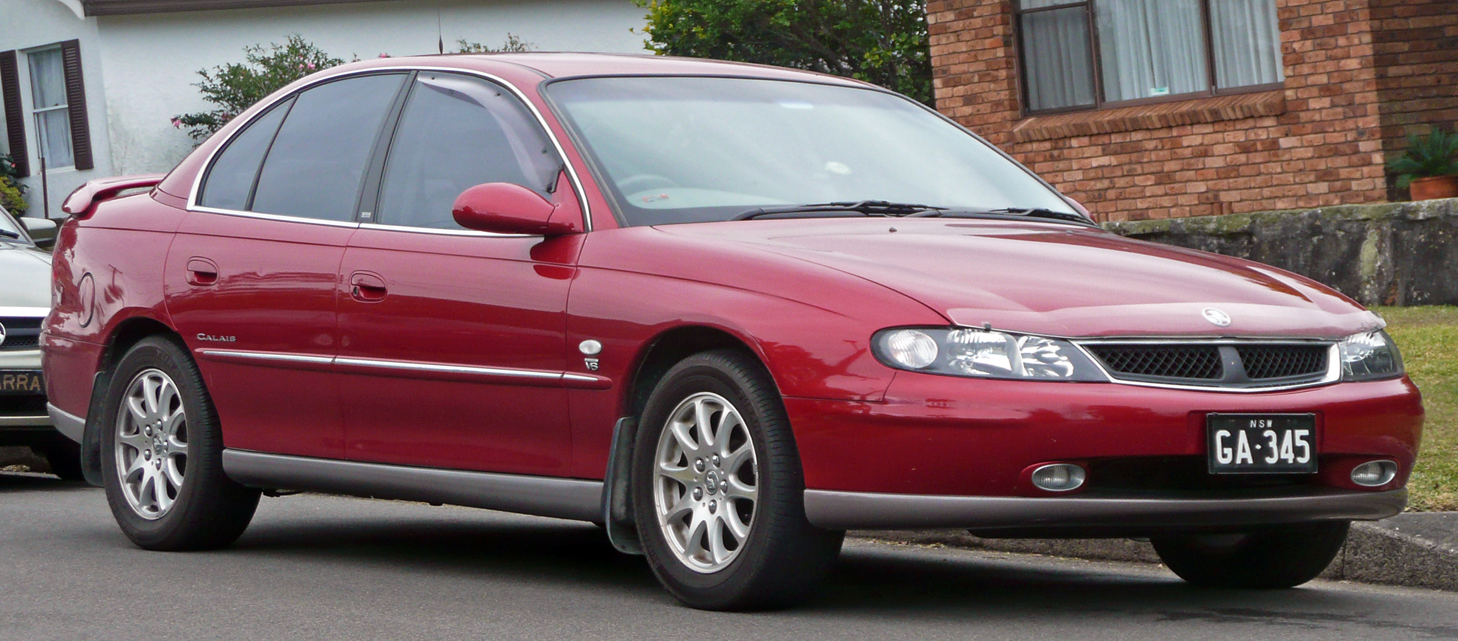 2001–2002 Holden VX II Calais sedan. Photographed in Cronulla, New South Wales, Australia.